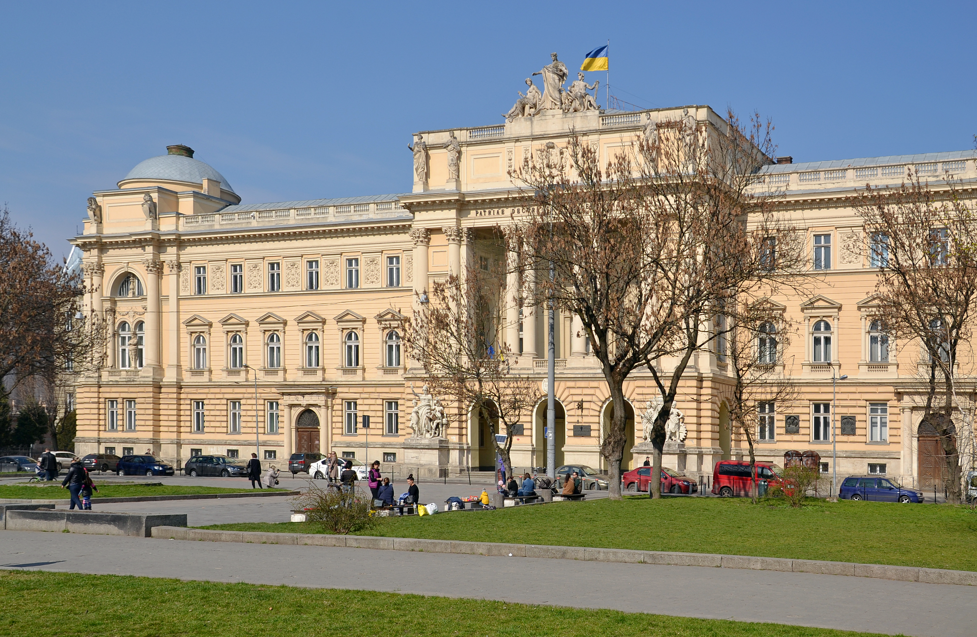 Main building of Lviv University, Lviv, Ukraine